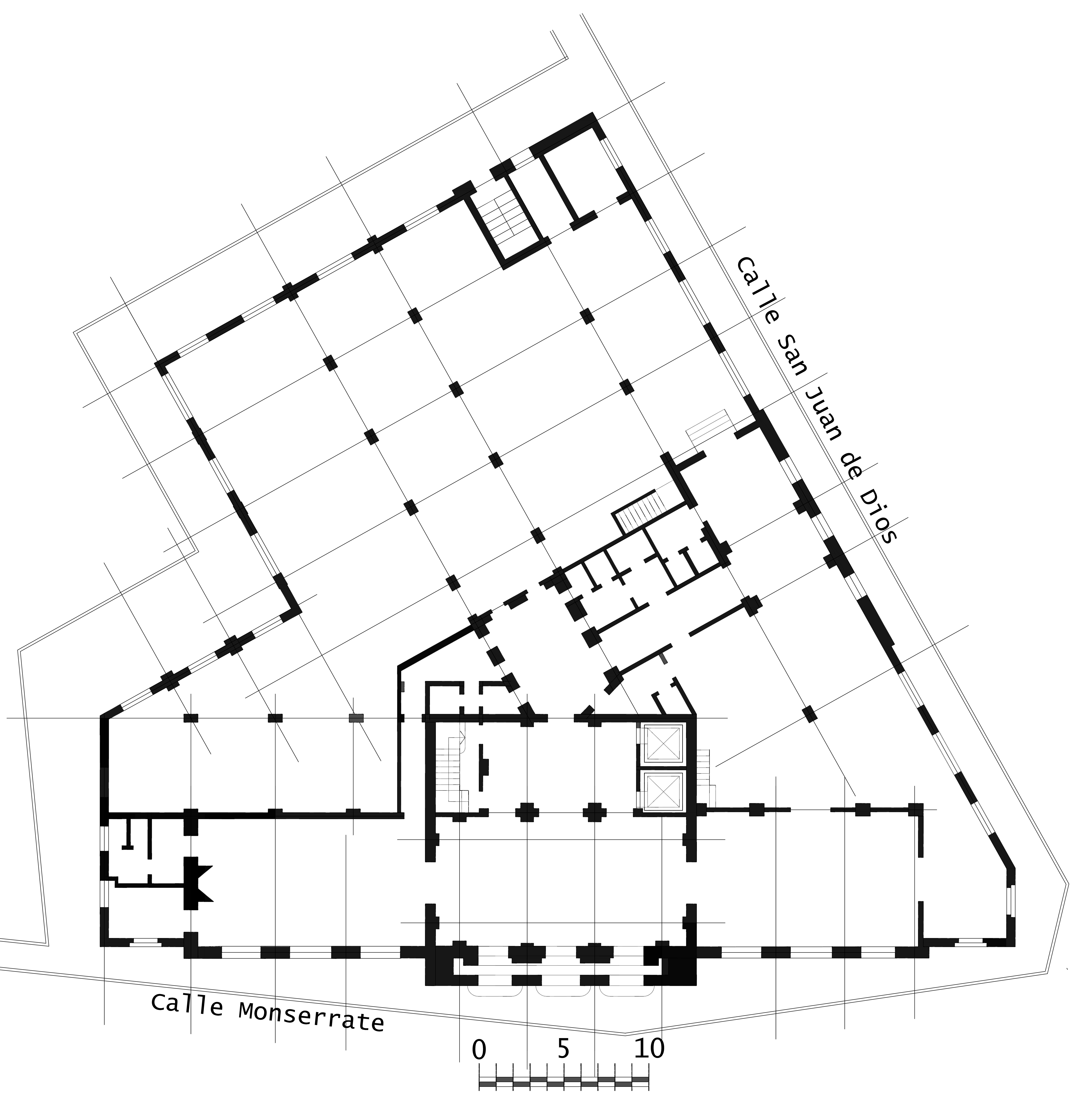 Bacardi Building (Havana)_Autocad Ground Floor Plan